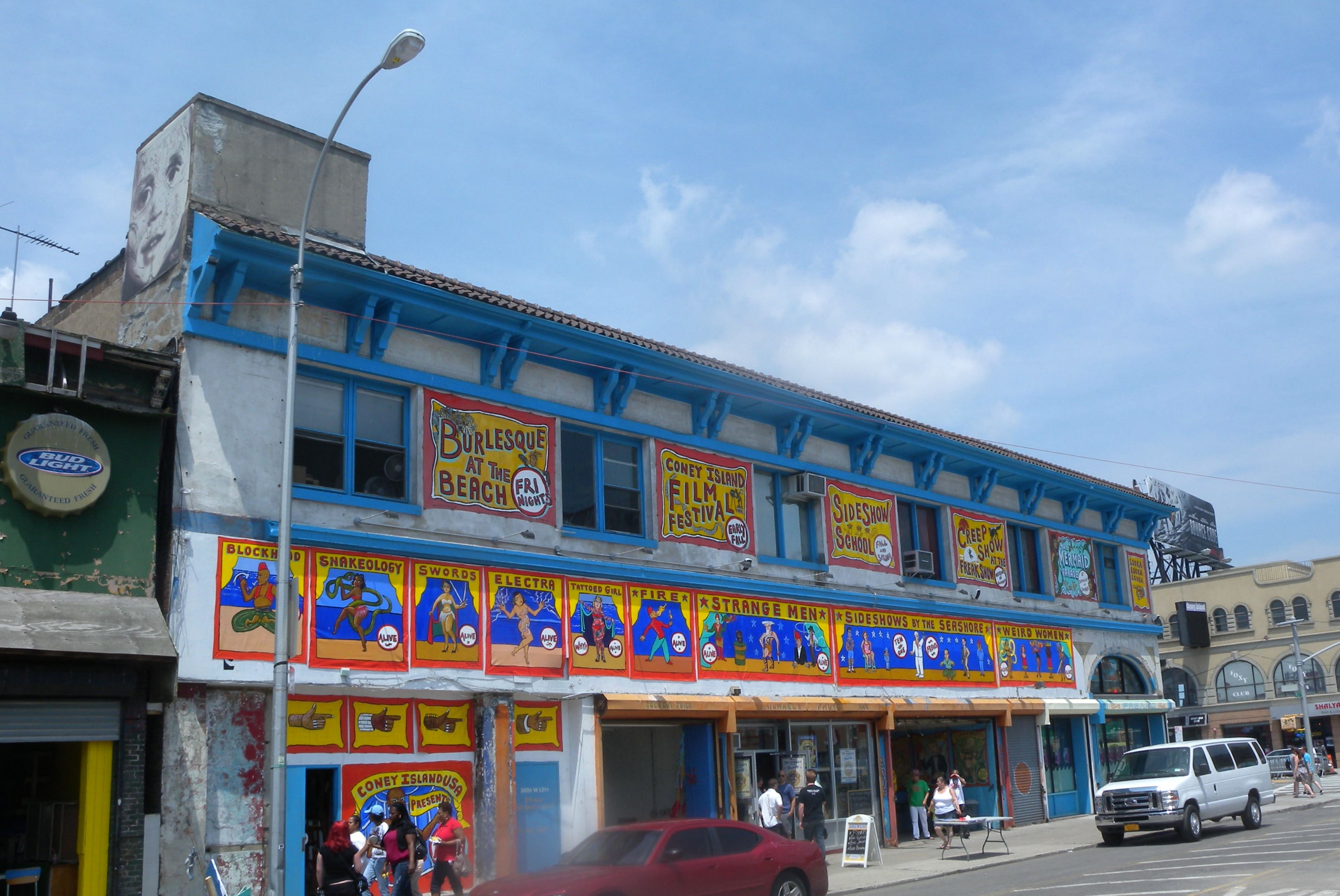 Looking northwest across West 12th St at museum on a sunny midday.